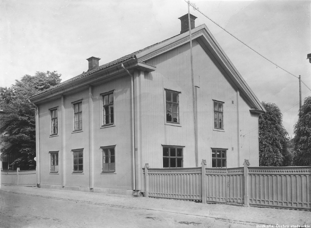 The old Bell-Lancaster-school in Örebro, Sweden